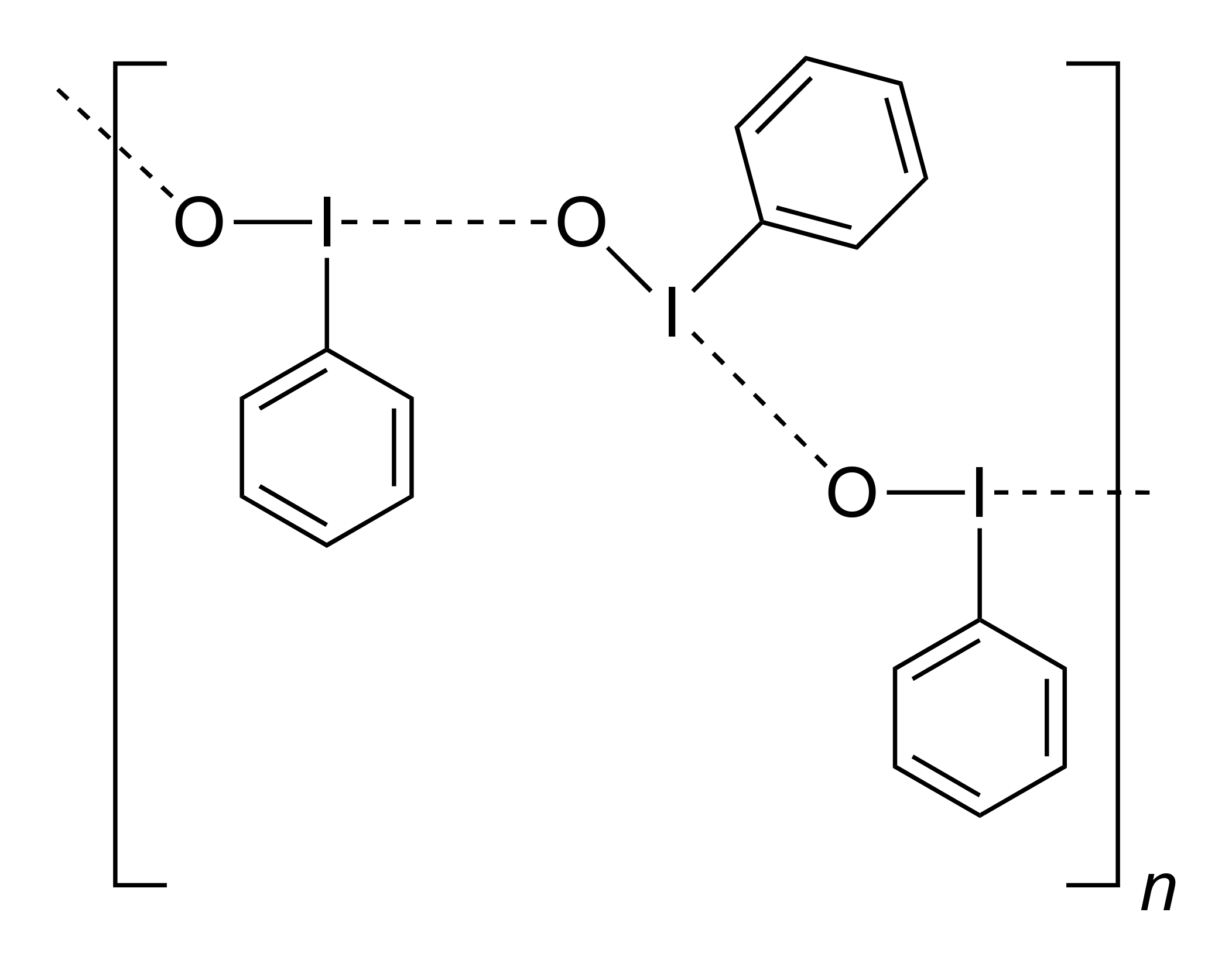 Diagram of the polymeric solid-state structure of iodosobenzene, PhIO, i.e. C6H5IO. Based on V. V. Zhdankin and co-workers, Angew. Chem. Int. Ed. 2014 53, 9617-9621, in turn on A. G. Orpen and co-workers, J. Chem. Soc., Chem. Commun. 1994, 2367-2368. Image generated in ChemDraw Professional 15.0.